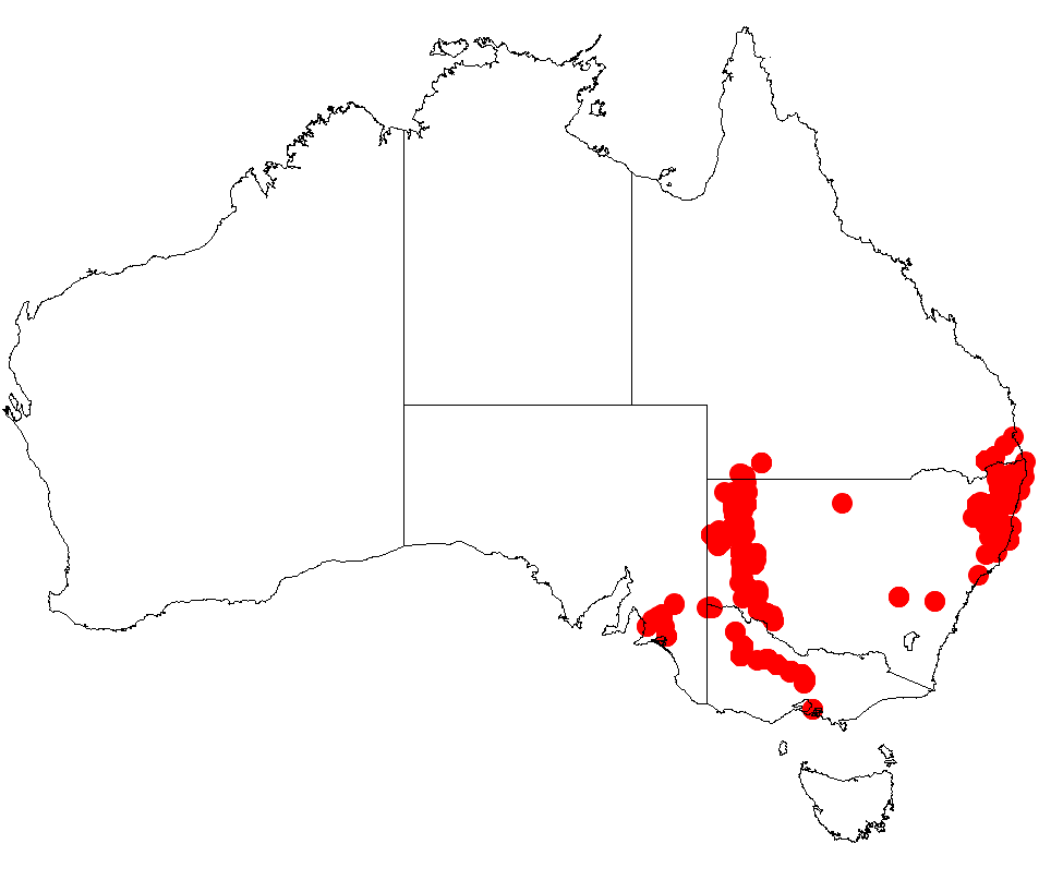 Hermann Beckler collections (downloaded from AVH, 30 September 2018. The map shows where Beckler collected in Australia, firstly as part of the Victorian Exploring Expedition (Burke & Wills expedition), and earlier for Ferdinand von Mueller (in Victoria, Queensland and northern NSW